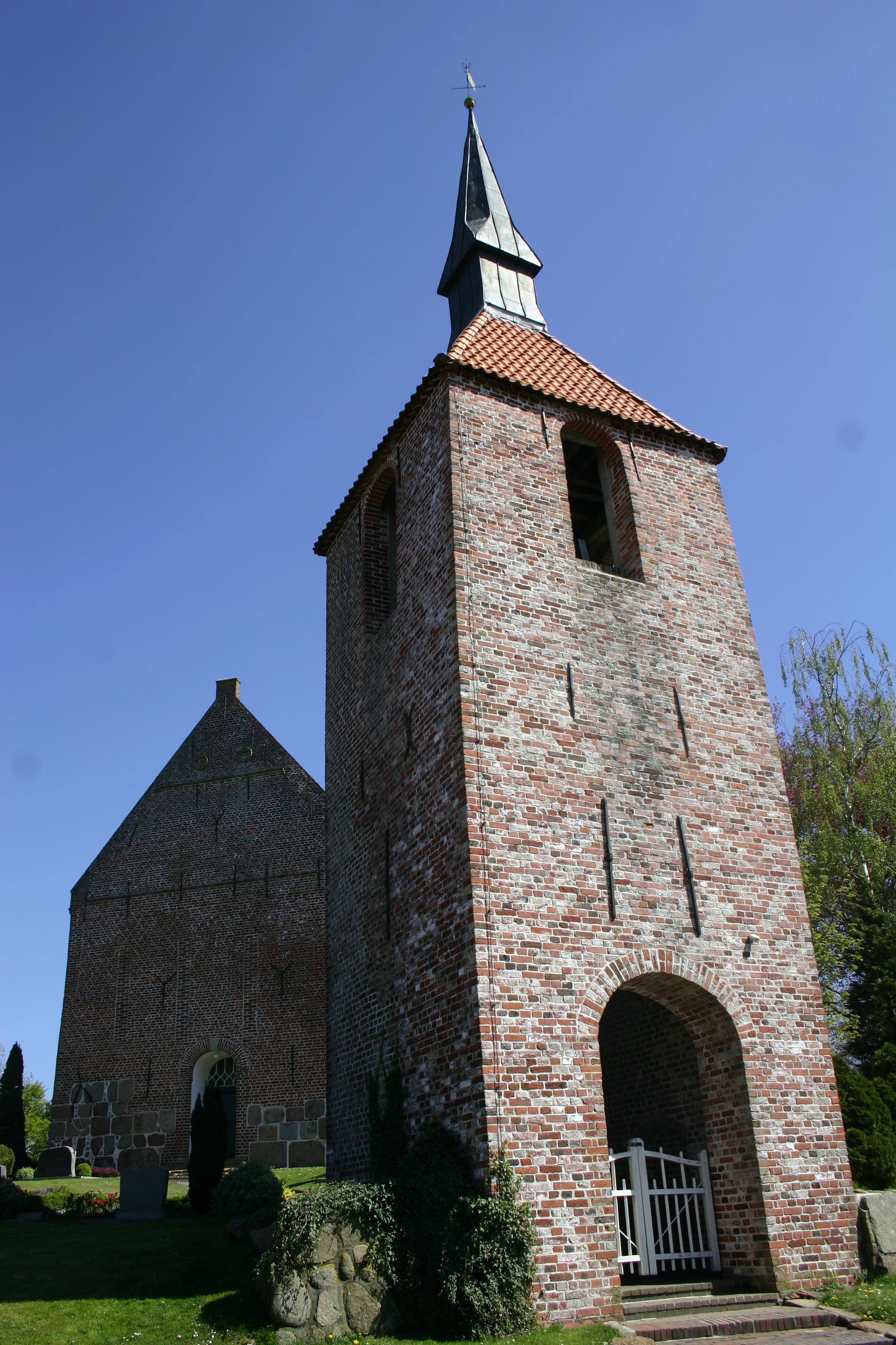 Historic church in Etzel, district of Wittmund, East Frisia, Germany